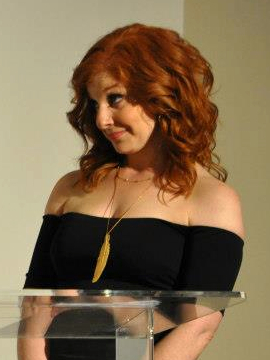 Author, podcaster and comedy performer Julie Klausner at a charity event for Dogs for the Deaf in New York City on 13 April 2013.